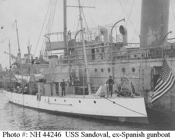 Photographed in 1898, shortly after entering U.S. Navy service. U.S. Navy photo NH 44246